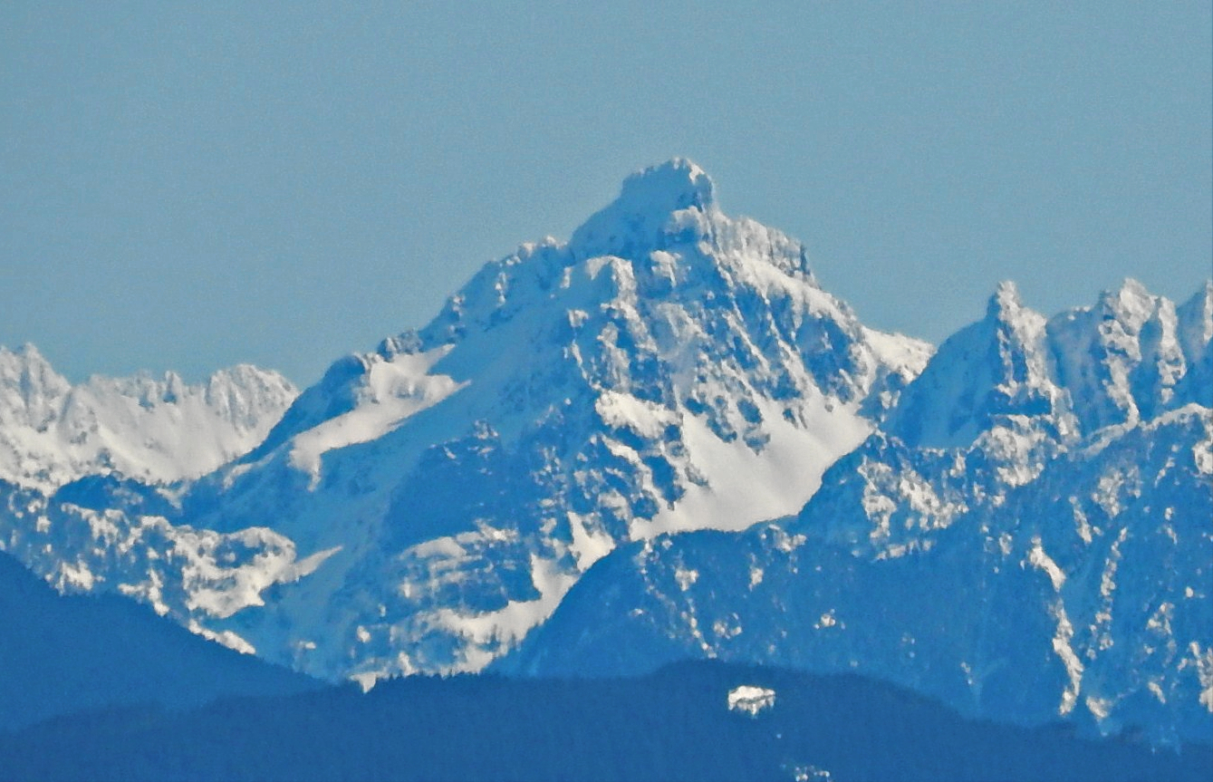 Del Campo Peak seen from Lake Stevens, WA with long lens